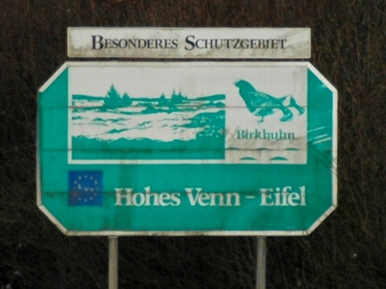 Sign 'Hohes Venn-Eifel' in Belgium